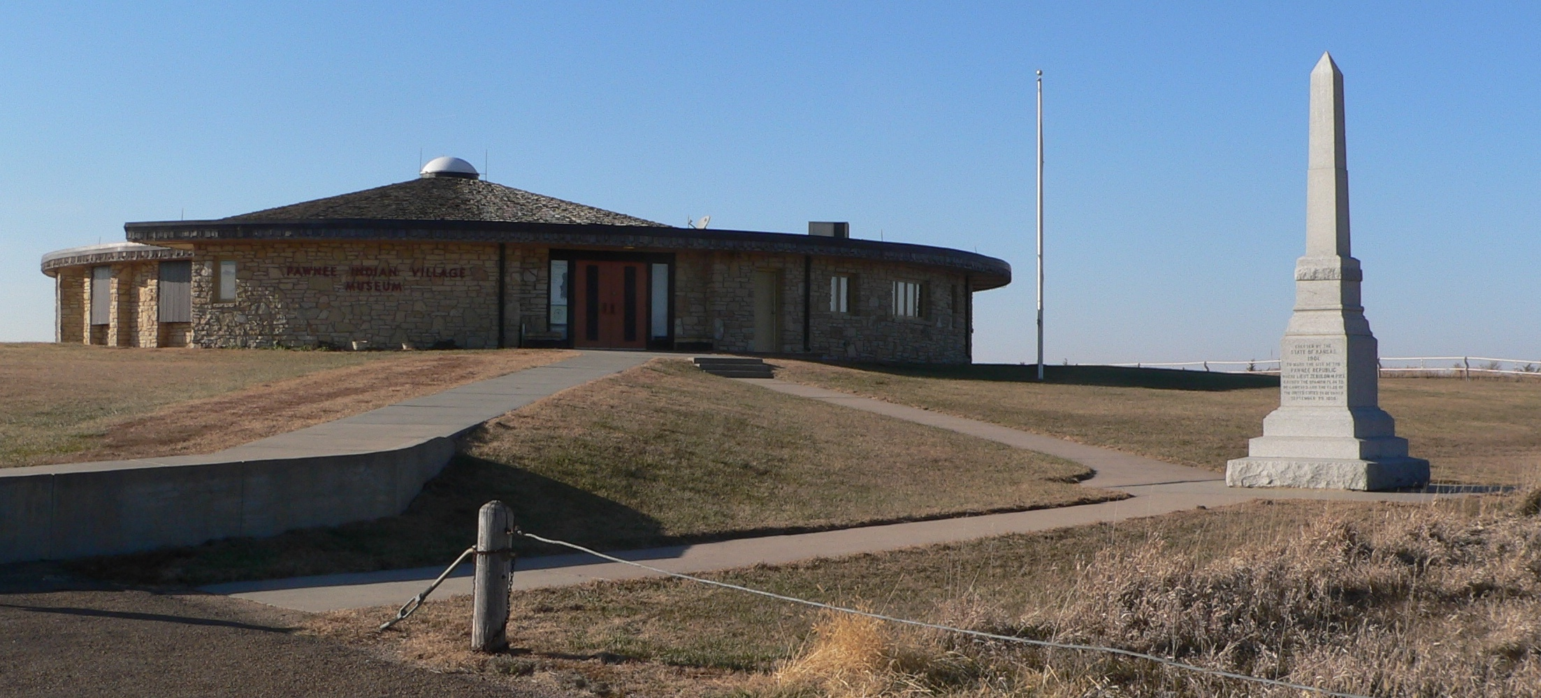 Pawnee Indian Museum State Historic Site, located near Republic, Kansas; seen from the southeast. The museum is in the left background. In the right foreground is a monument built on the site in 1901. The site is listed in the National Register of Historic Places.